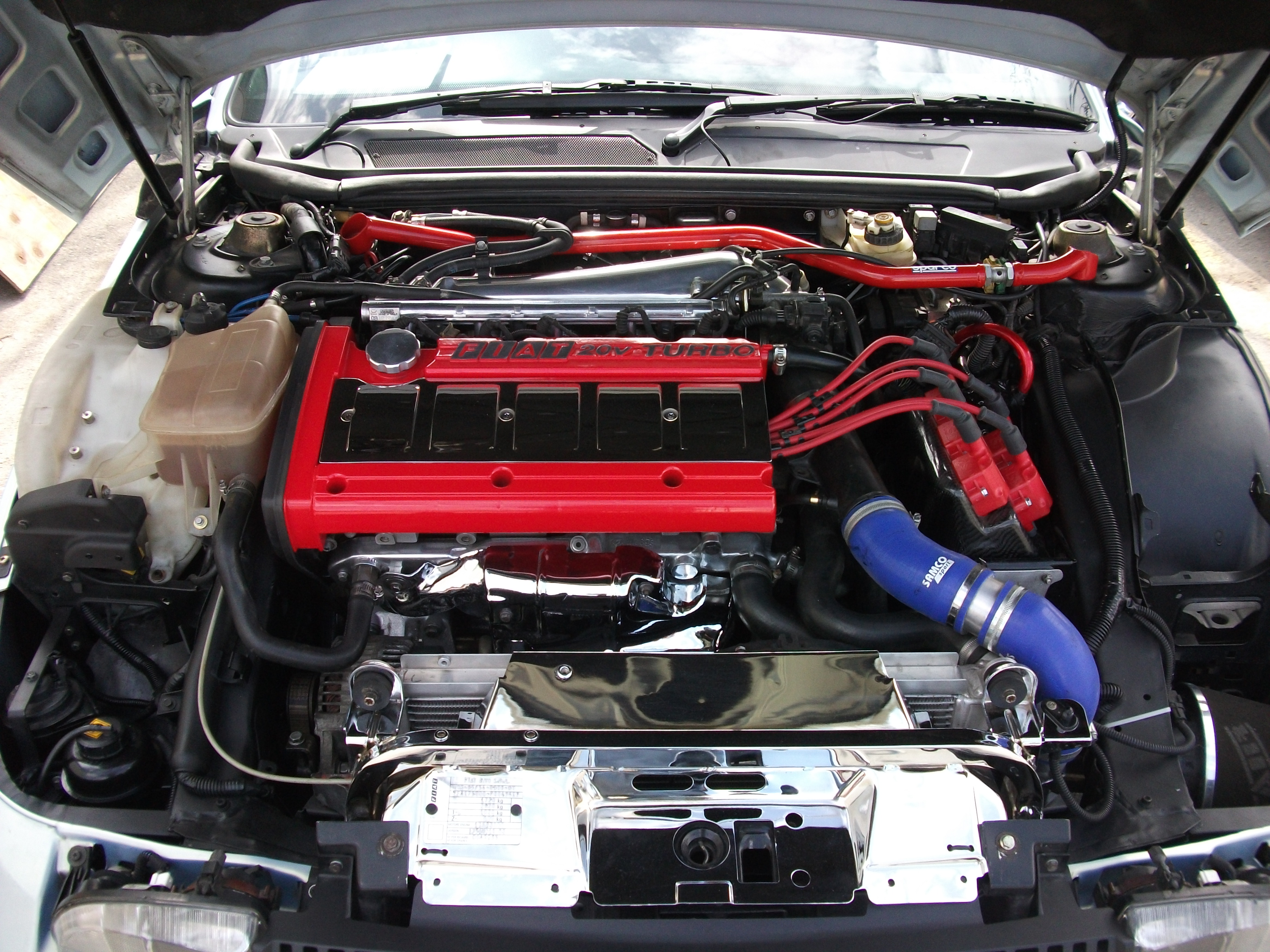 Interesting import this 1997 Fiat Coupe 20VT. First one I've seen in Canada.